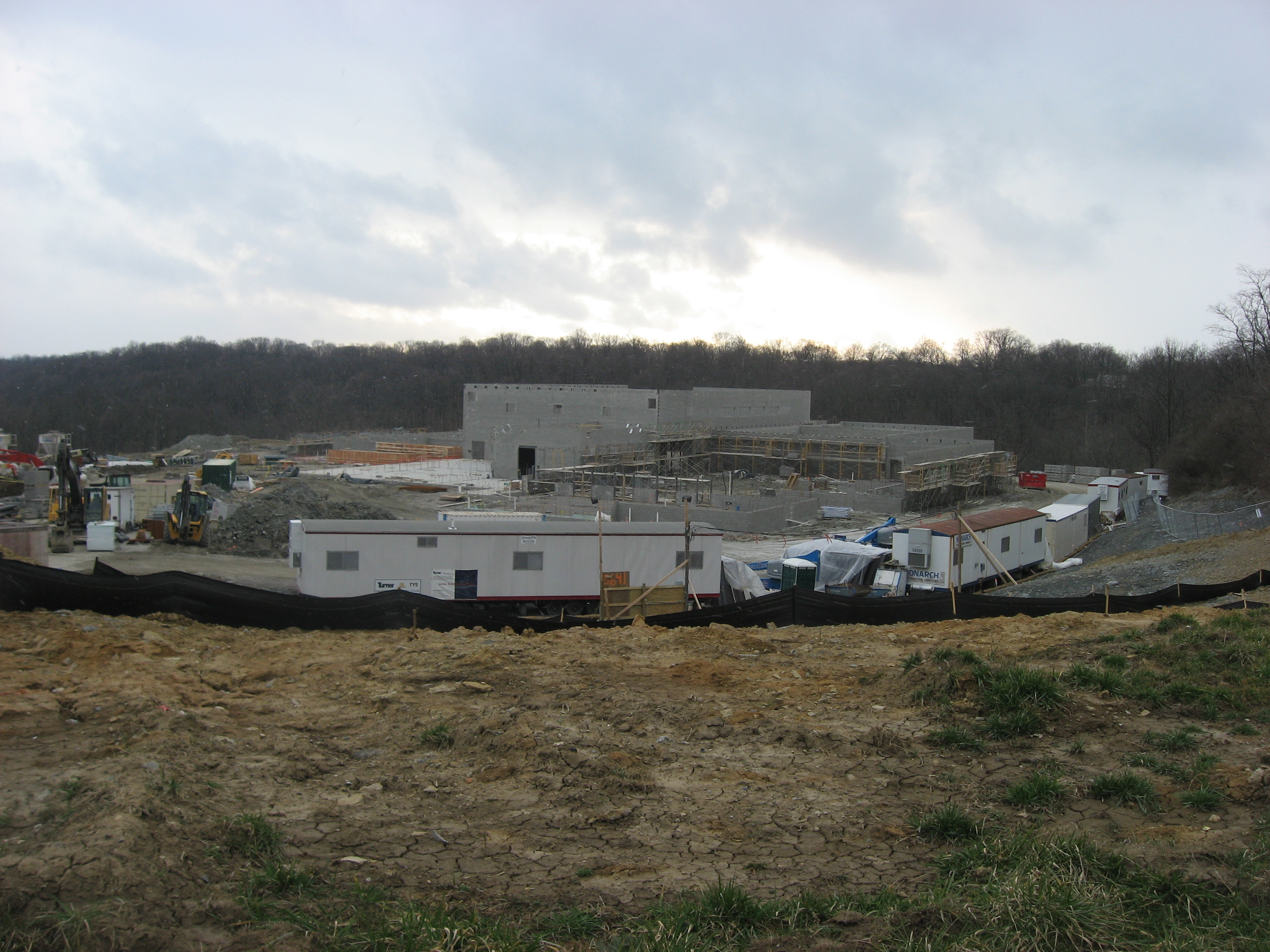 An extensive construction project at Aiken High School, located at 5641 Belmont Avenue in Cincinnati, Ohio, United States.